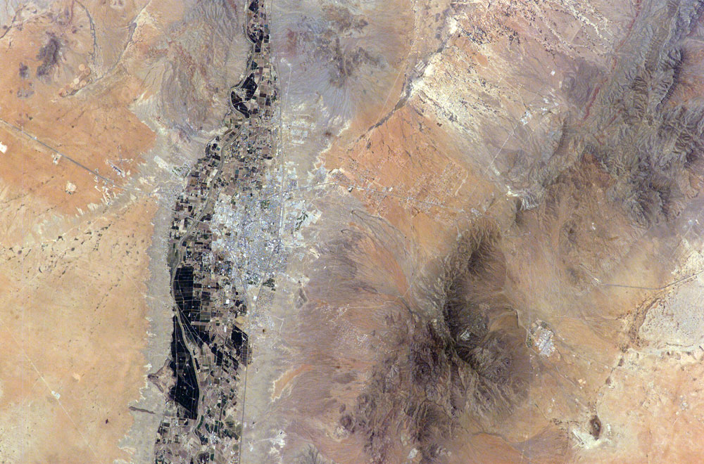 Astronaut photo of Las Cruces, New Mexico. The Rio Grande flows through the city and the Organ Mountains can be seen on the right side of the image.